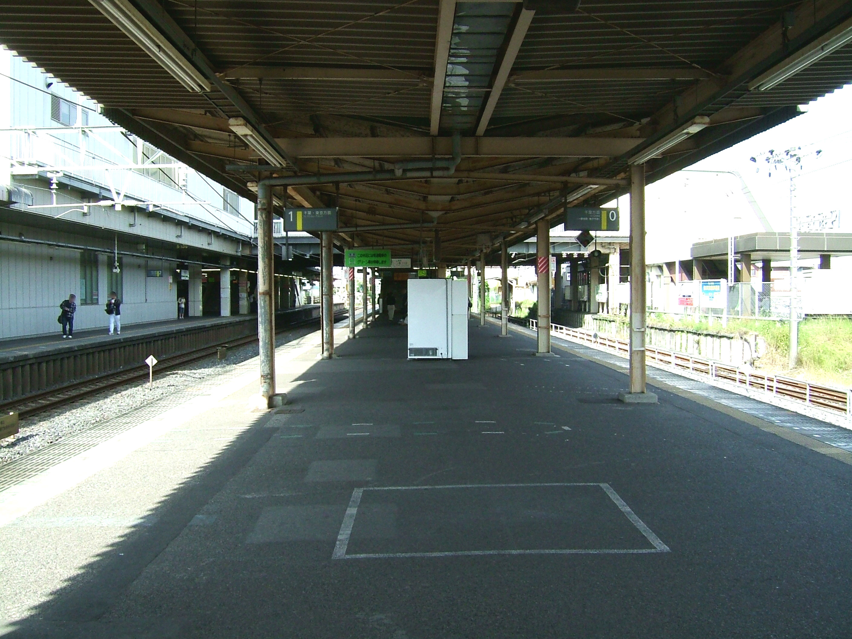 Yotsukaidō Station platform (East Japan Railway Sōbu Main Line)